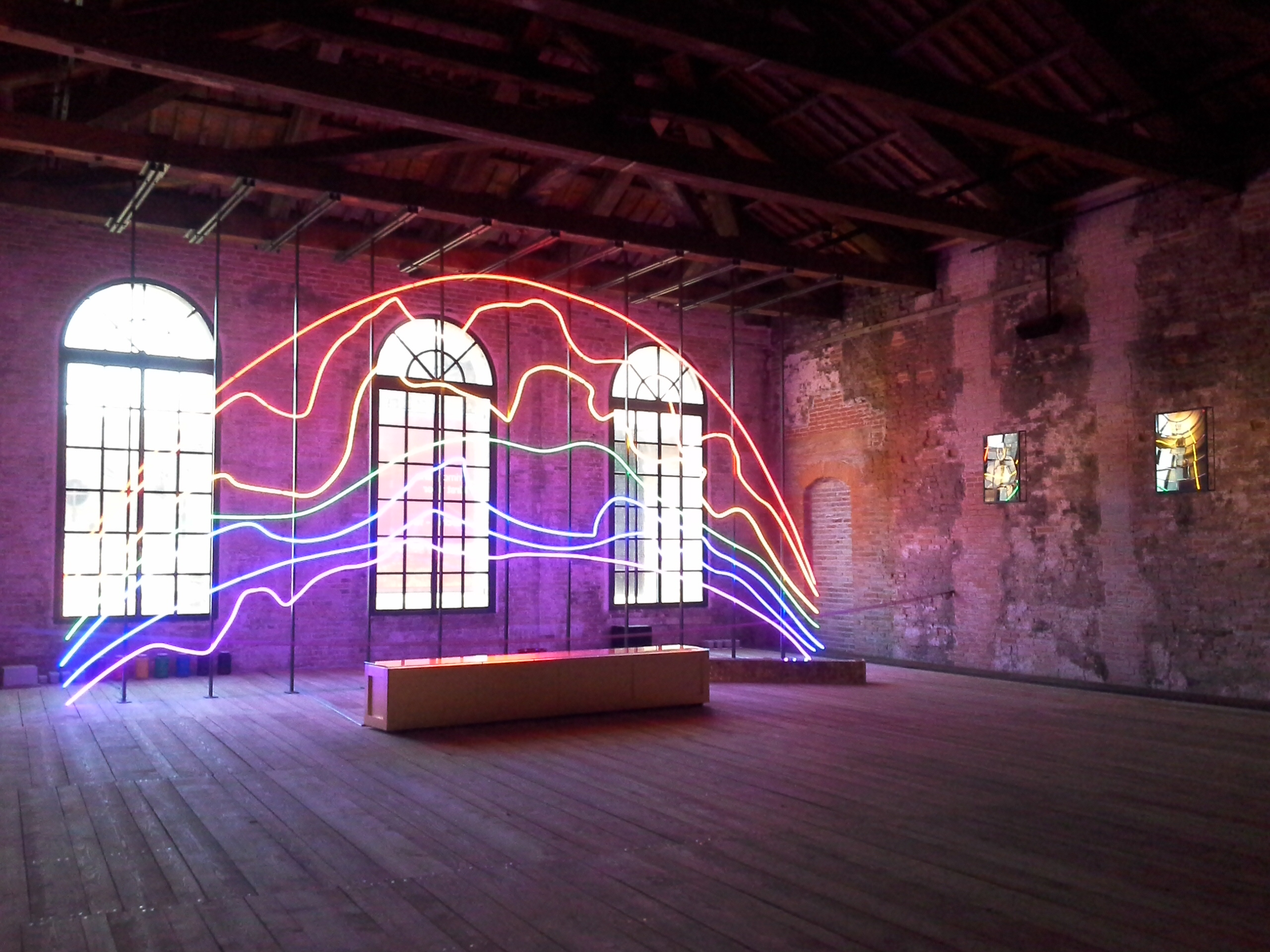 La Biennale di Venezia 56th International Art Exhibition Pavilion of Turkey, exhibition Respiro by the artist Sarkis, 2015